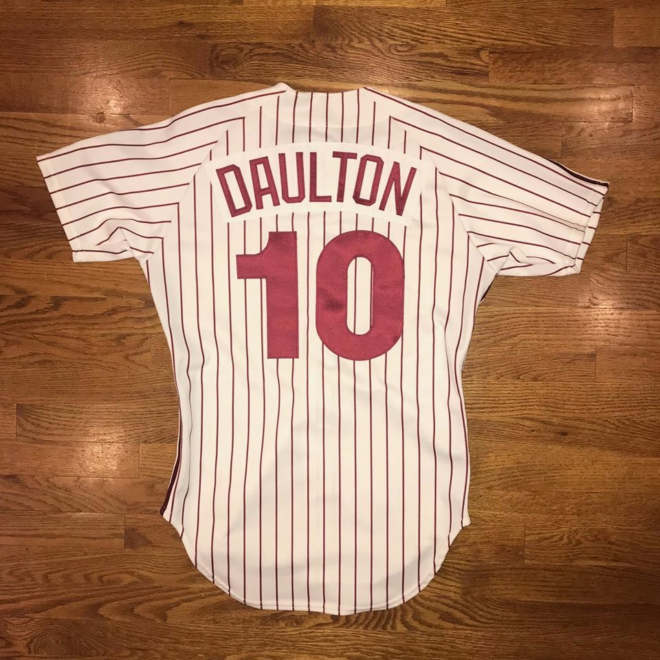 1988 Philadelphia Phillies #10 Darren Daulton home jersey lettered and photographed by William F. Henderson who may be contacted through his website at thedream.shop